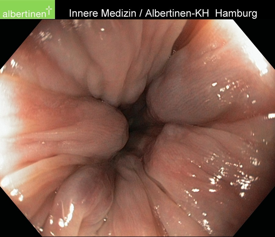 Endoscopic image of piles of 2nd degree.